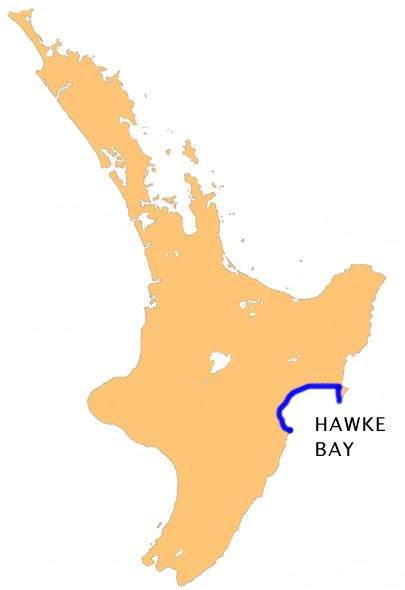 Location map of Hawke Bay, New Zealand